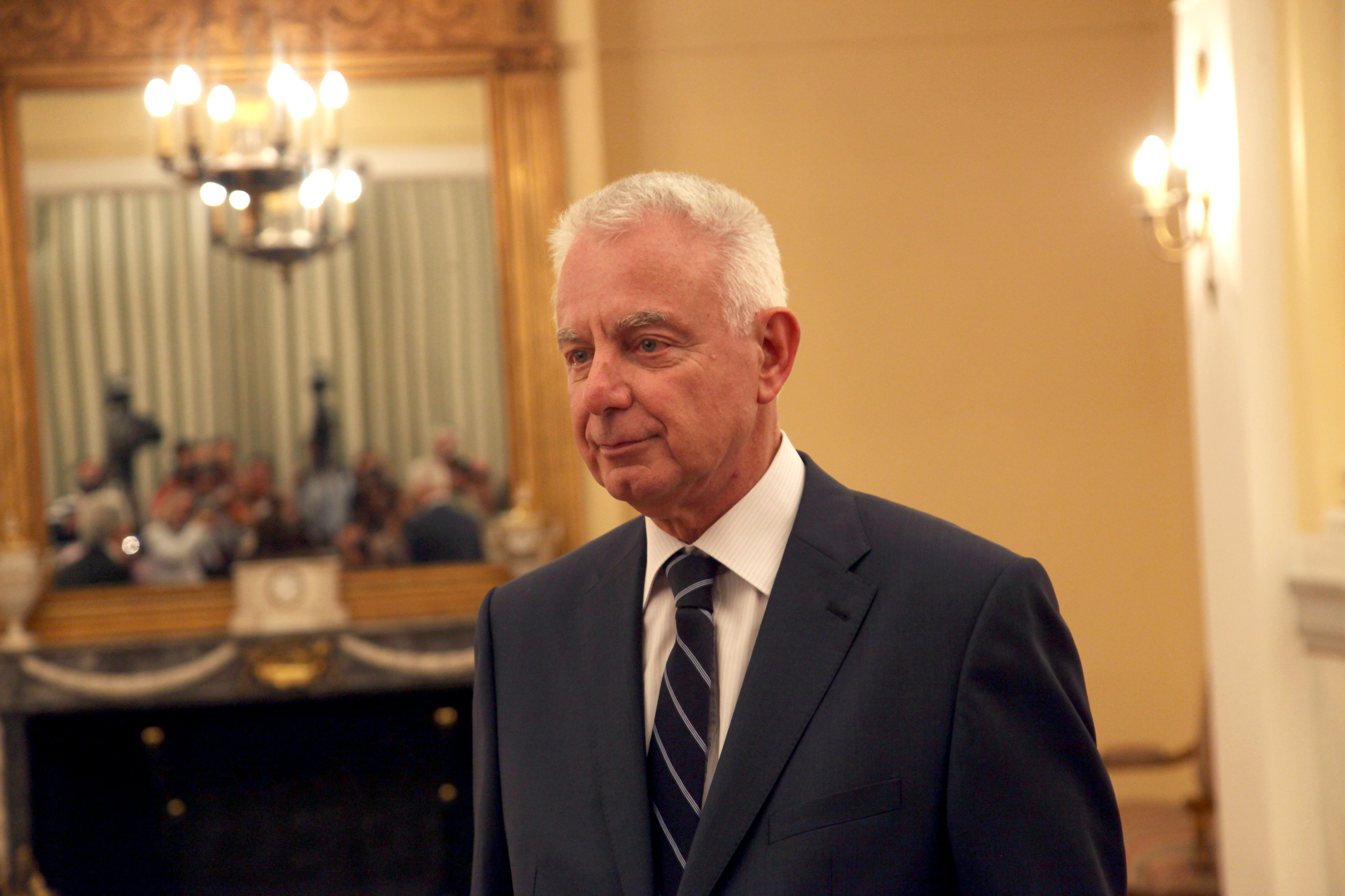 Pikramenos as a prime minister of Greece